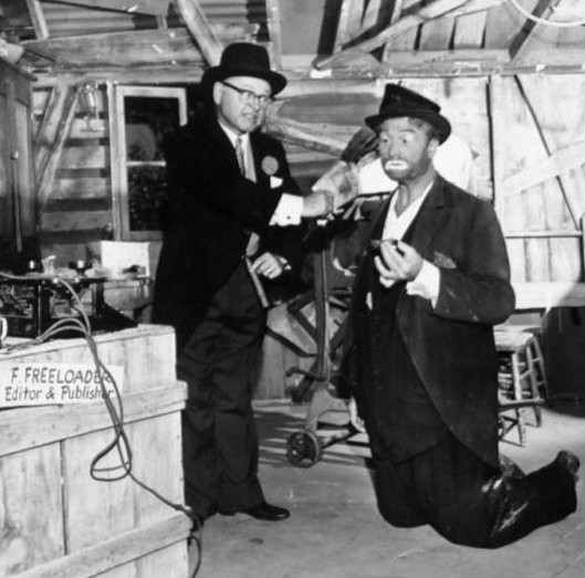 Publicity photo of Mickey Rooney and Red Skelton as Freddie the Freeloader from The Red Skelton Show.